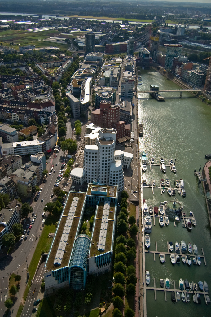 Gehry buildings Der Neue Zollhof in Media harbour, Düsseldorf, Germany Taken from the viewing platform/restaurant of the Rheinturm.